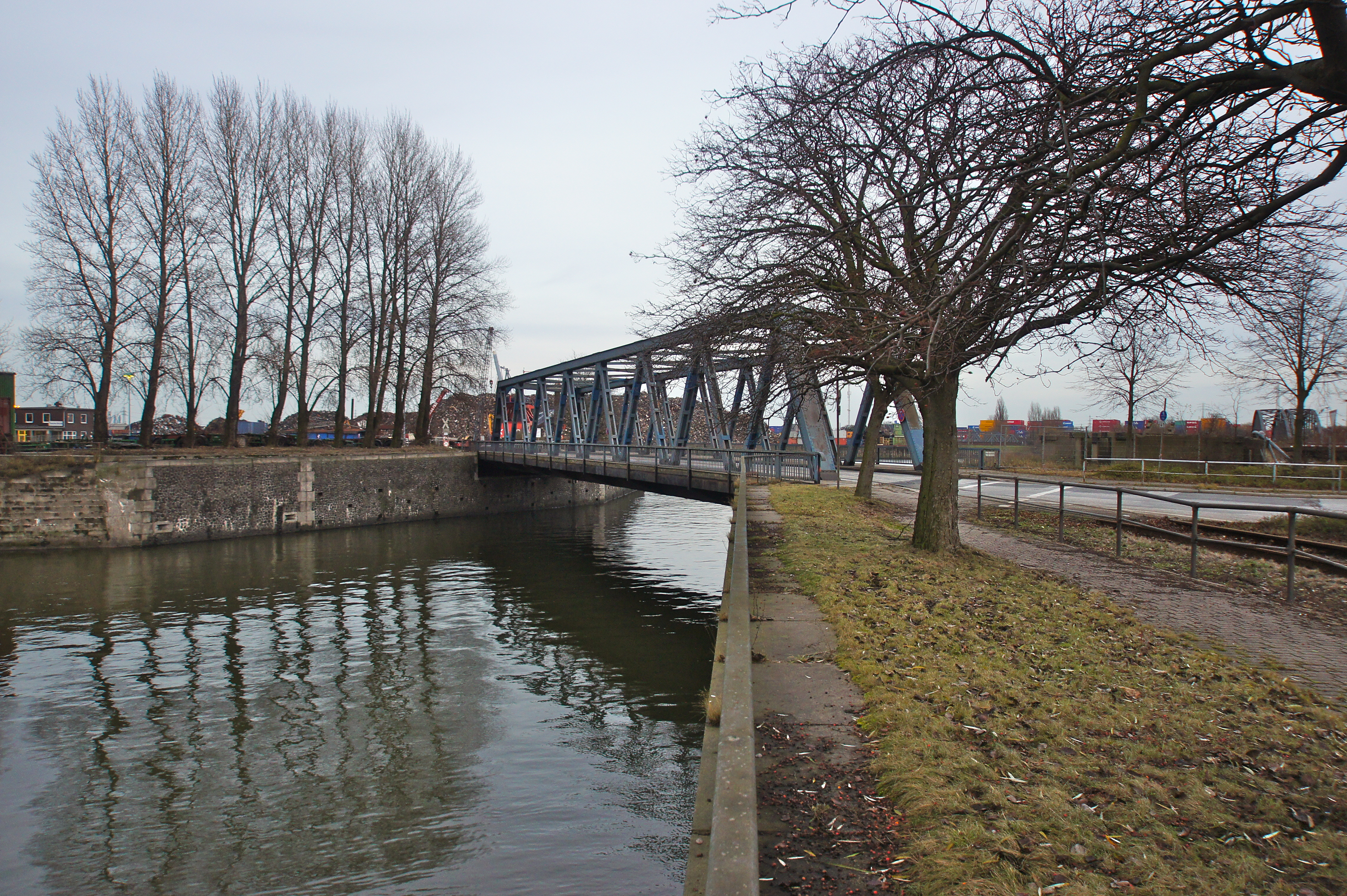 Hamburg (Steinwerder), Germany: The Hachmannbridge over the Rosskanal